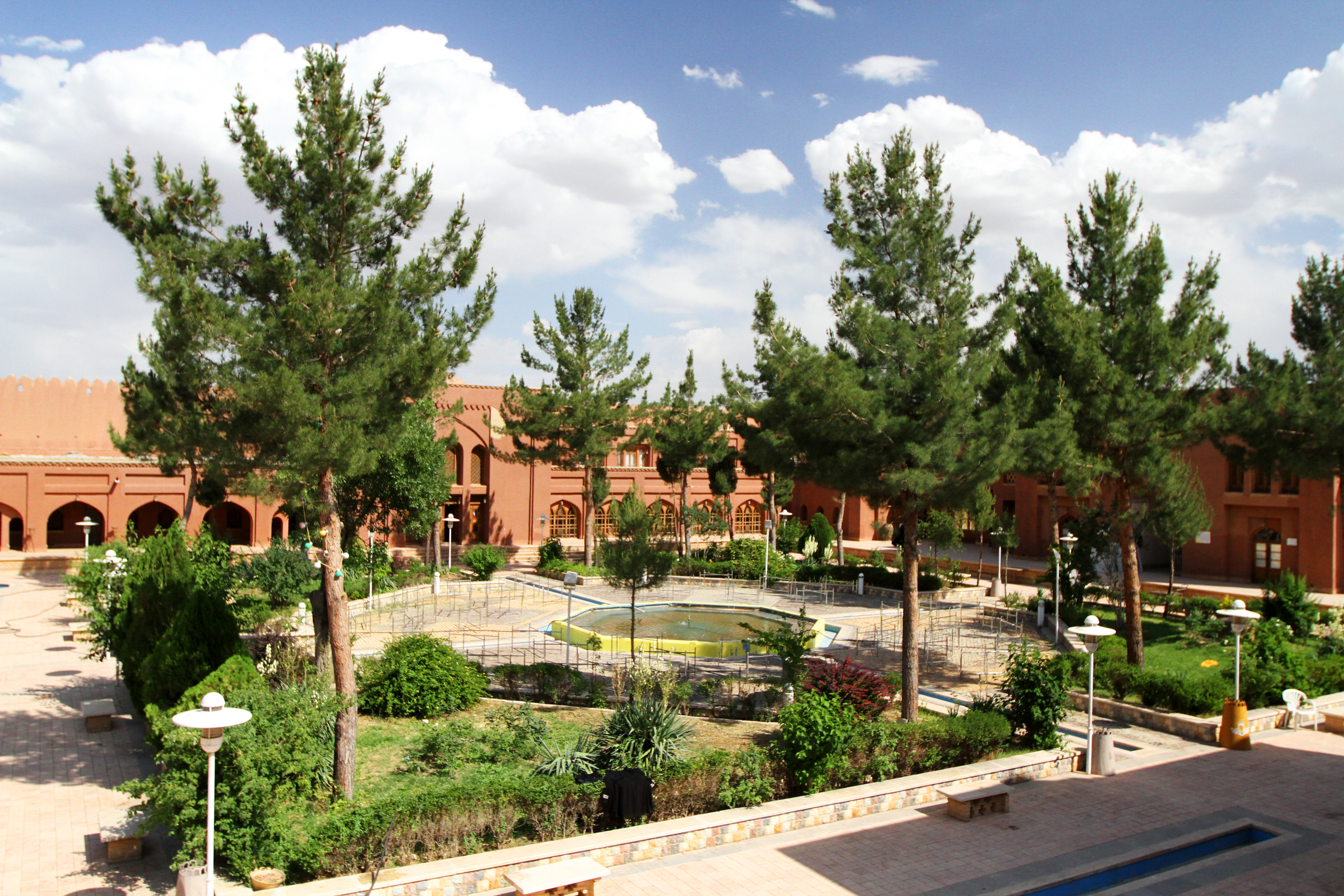 Googad Arg (Arge-e Googad), Golpayegan, Isfahan Province, Iran - June 15, 2012